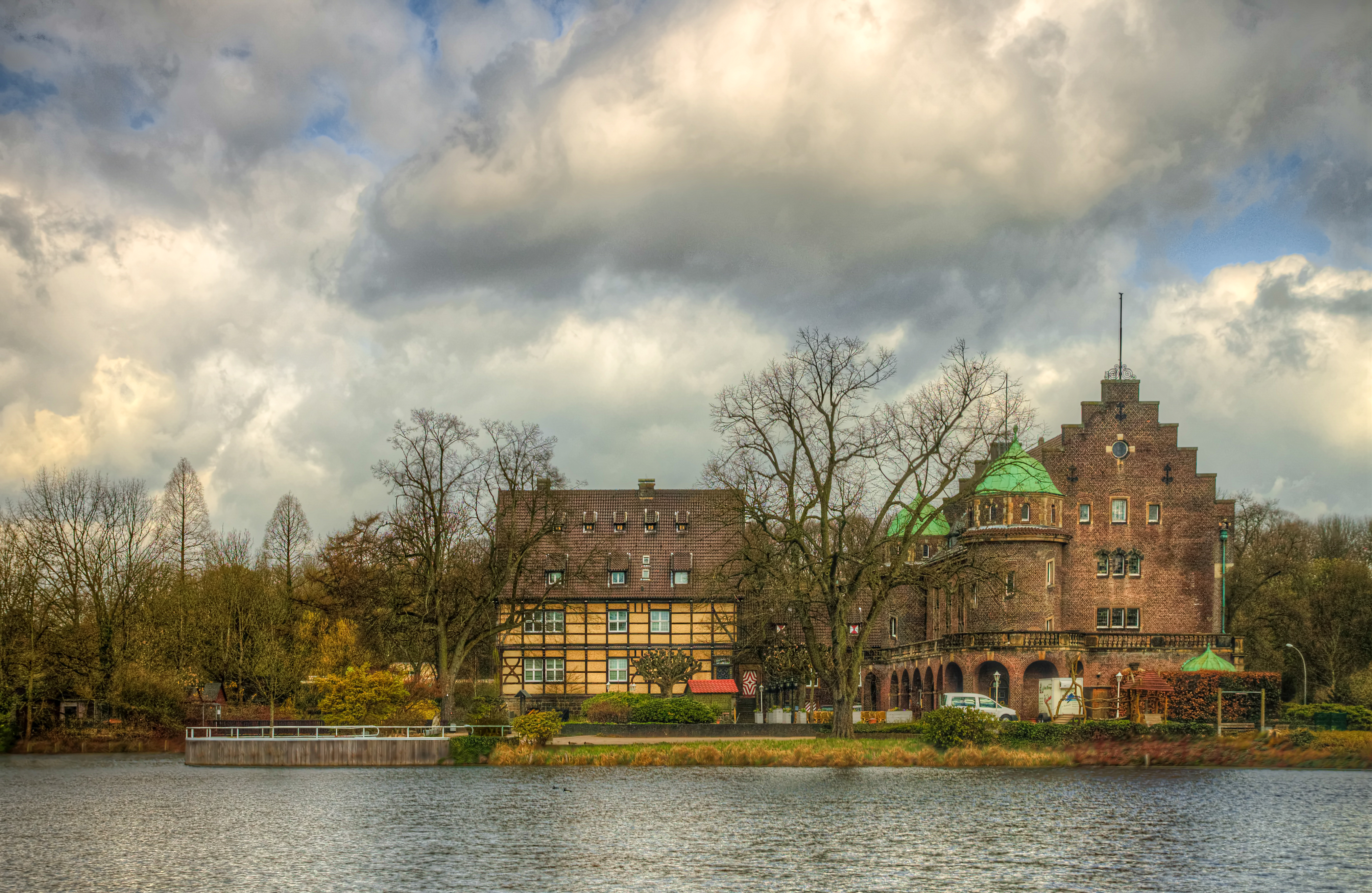 This is a photograph of an architectural monument., no. 2